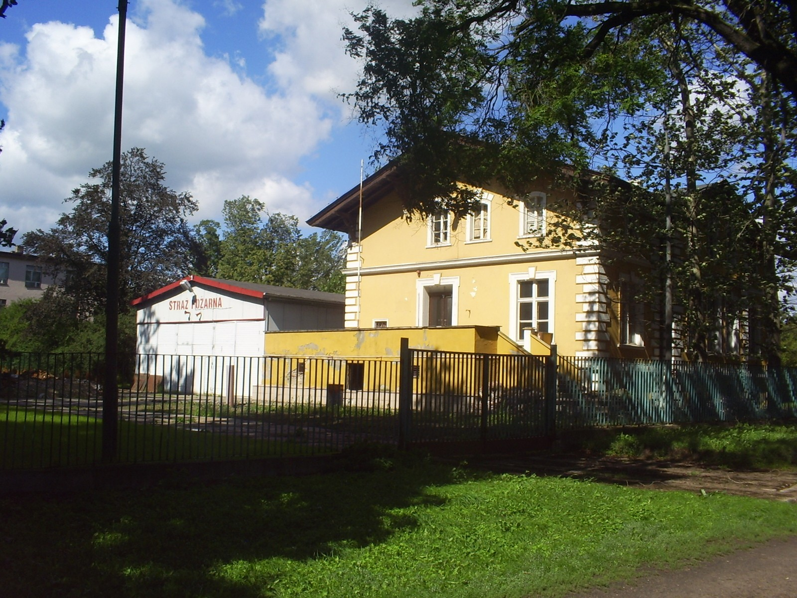 Inoperative building of fire guard Polaru. Street gen. T. Bora Komorowskiego - - Wrocław, Poland